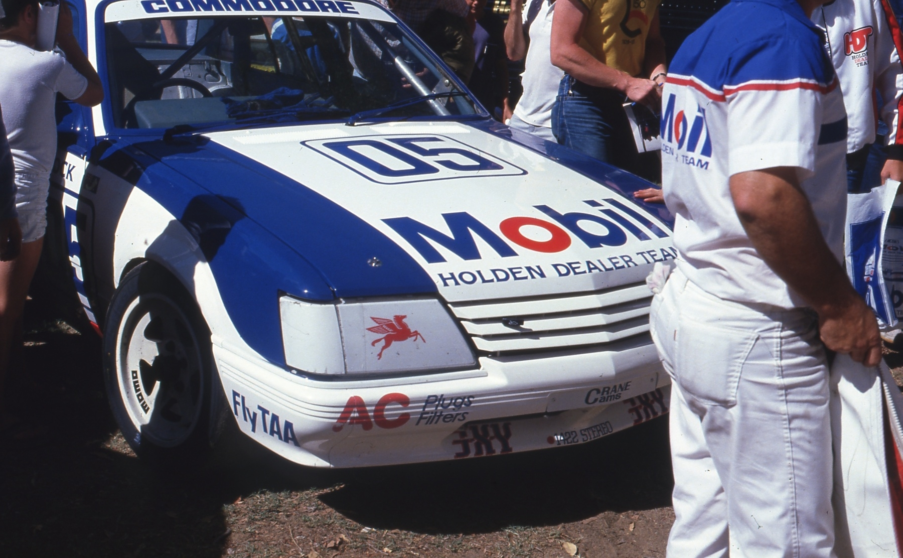 HDT 05 being driven by Peter Brock in the pits at Wanneroo Raceway 1985